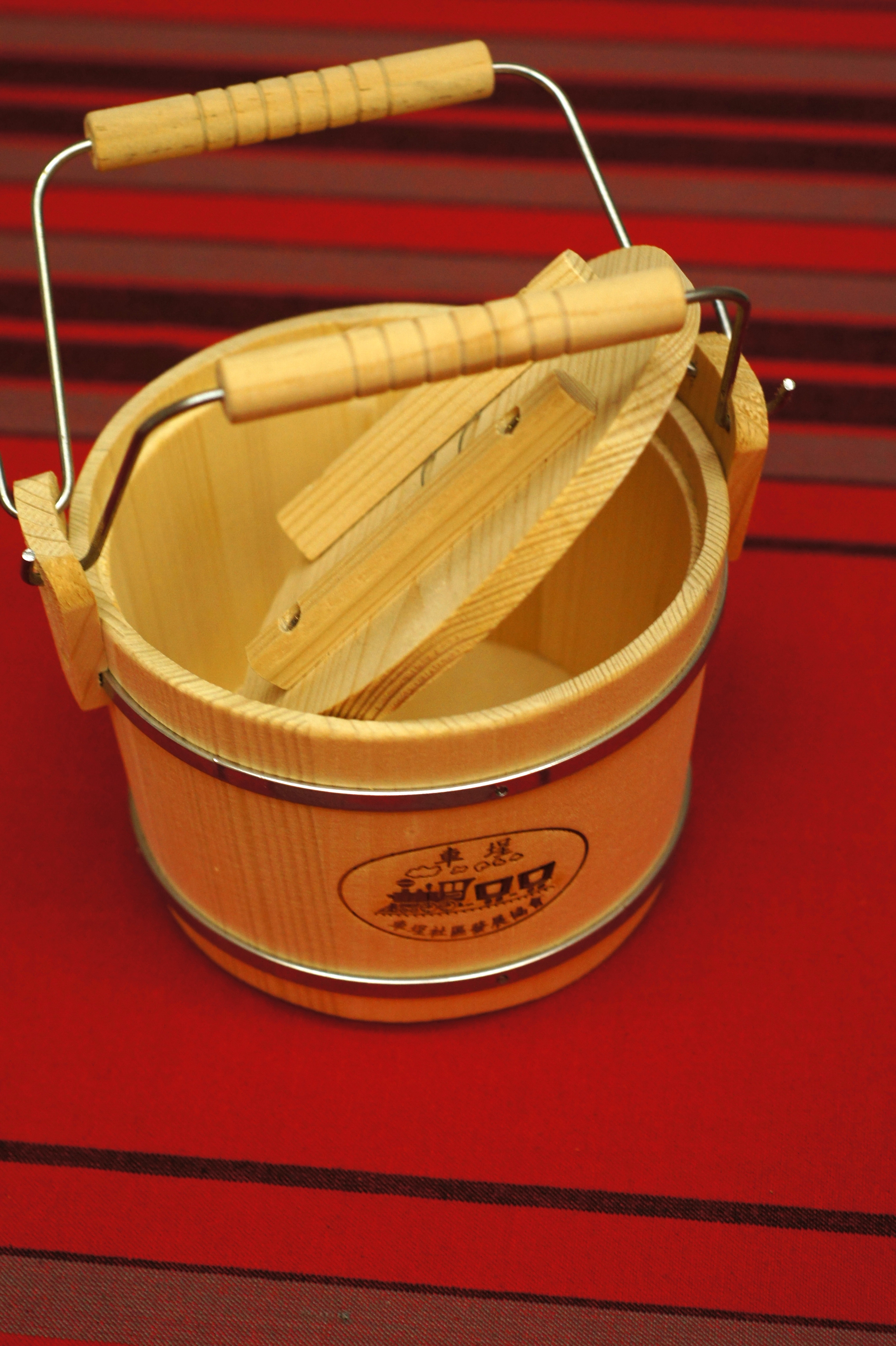 Checheng wood bucket bento, Taiwan.